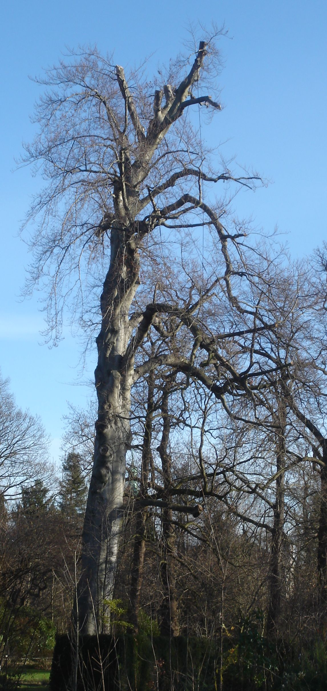 Clemens-August-Buche, an over 250 years old European Beech, at Botanical Garden Bonn. Originally two trees, the other one fell on 18. Jan. 2007.